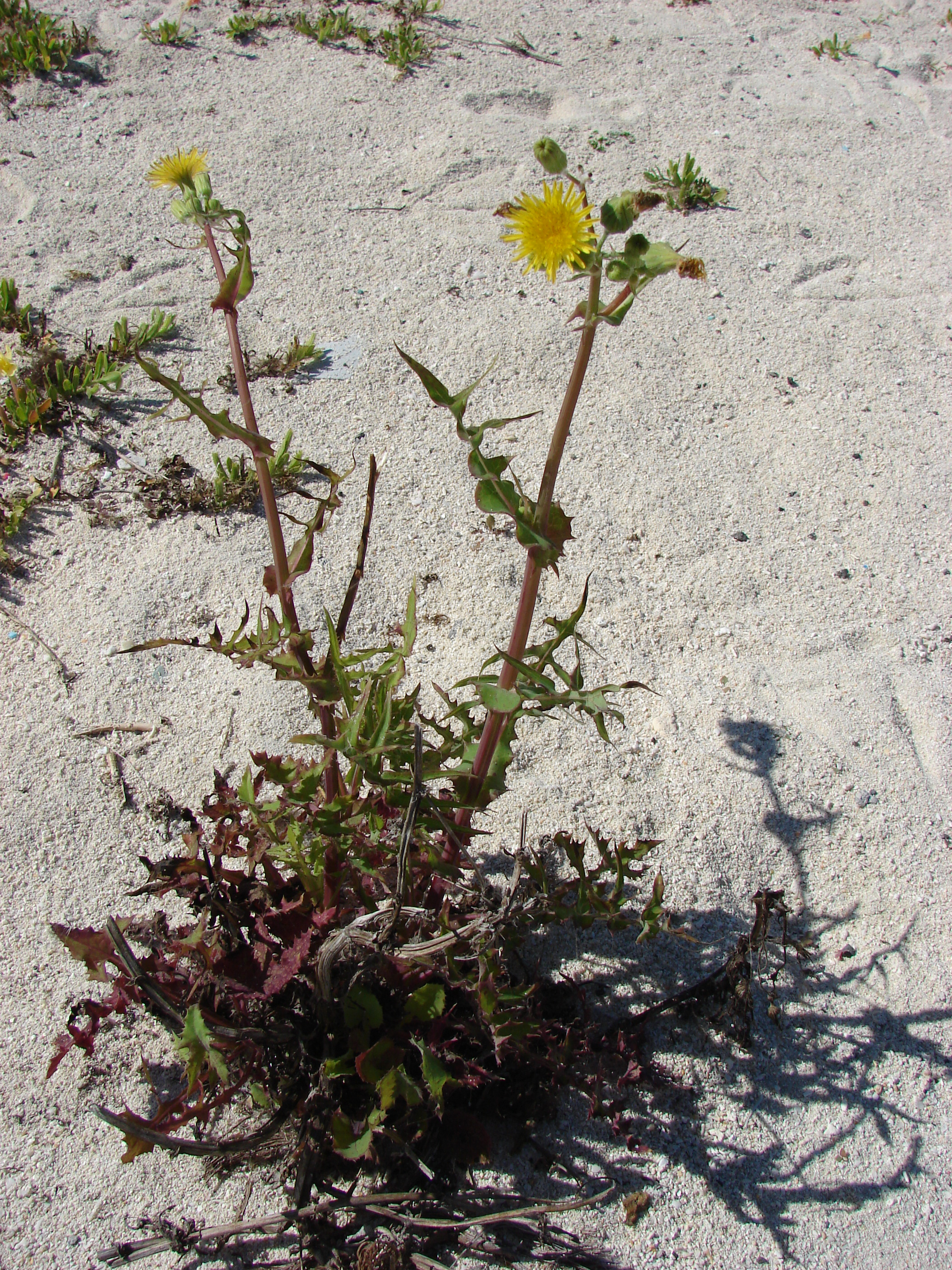 Sonchus oleraceus (Sow thistle) Flowering habit at South Beach Sand Island, Midway Atoll, Hawaii. June 04, 2008 #080604-5965 Image Use Policy